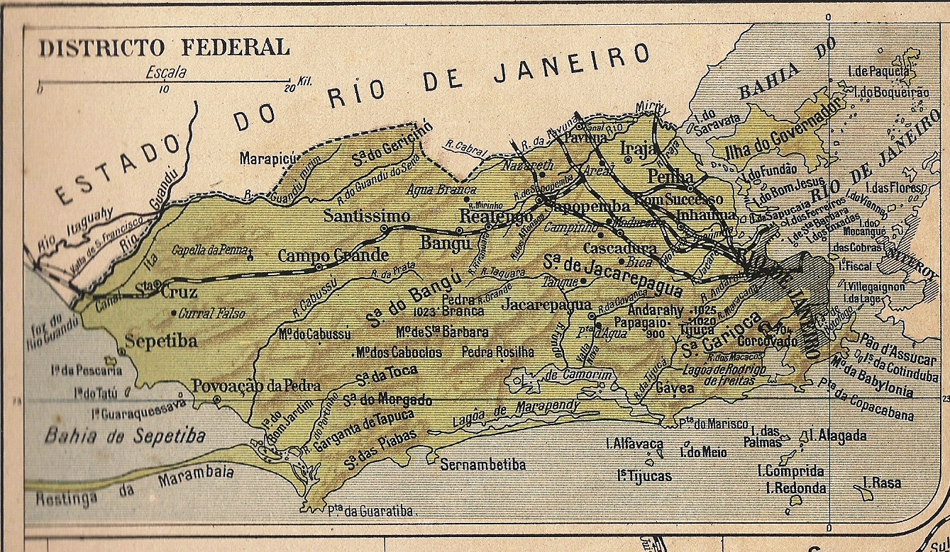 Map of the former Federal District (1891–1960), Brazil.